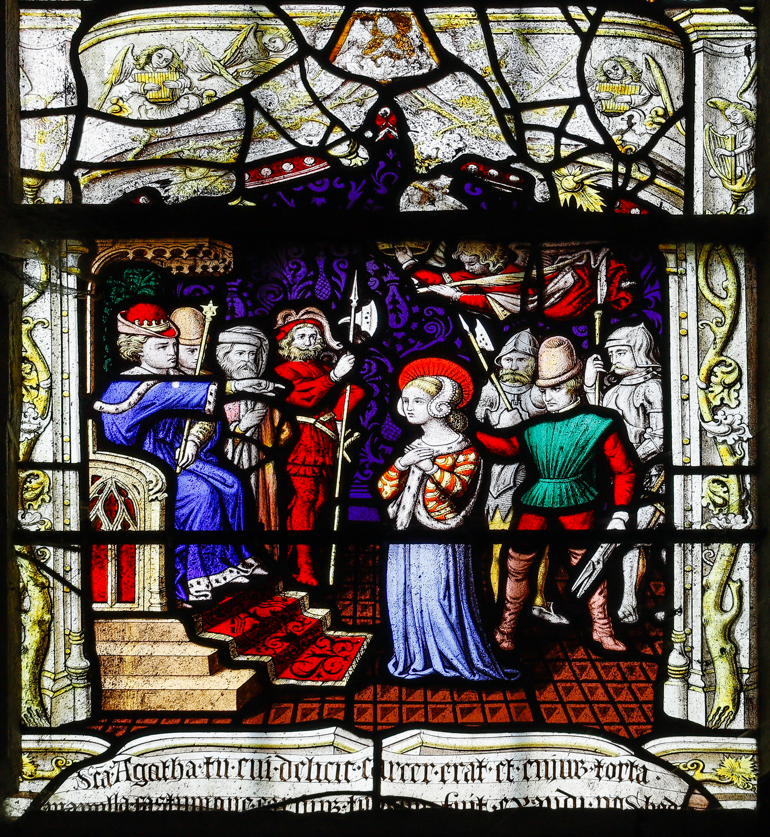 Lower left panel of the stained glass window of the 17th bay, depicting the judgement of St. Agatha. The window was created in 1515 with restorations in the 19th century and c. 1960 by the studio of Max Ingrand (died 1969). (See pp. 155, 157 in Martine Callias Bey and Véronique David: Les vitraux de Basse-Normandie, ISBN 2-84706-240-8.)